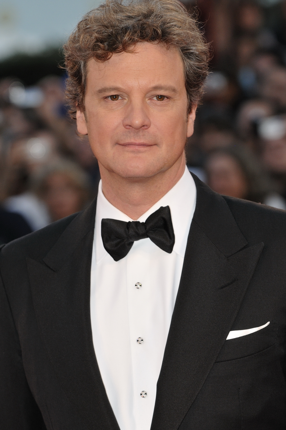 Actor Colin Firth attends the Closing Ceremony at the Sala Grande during the 66th Venice Film Festival on September 12, 2009 in Venice, Italy.